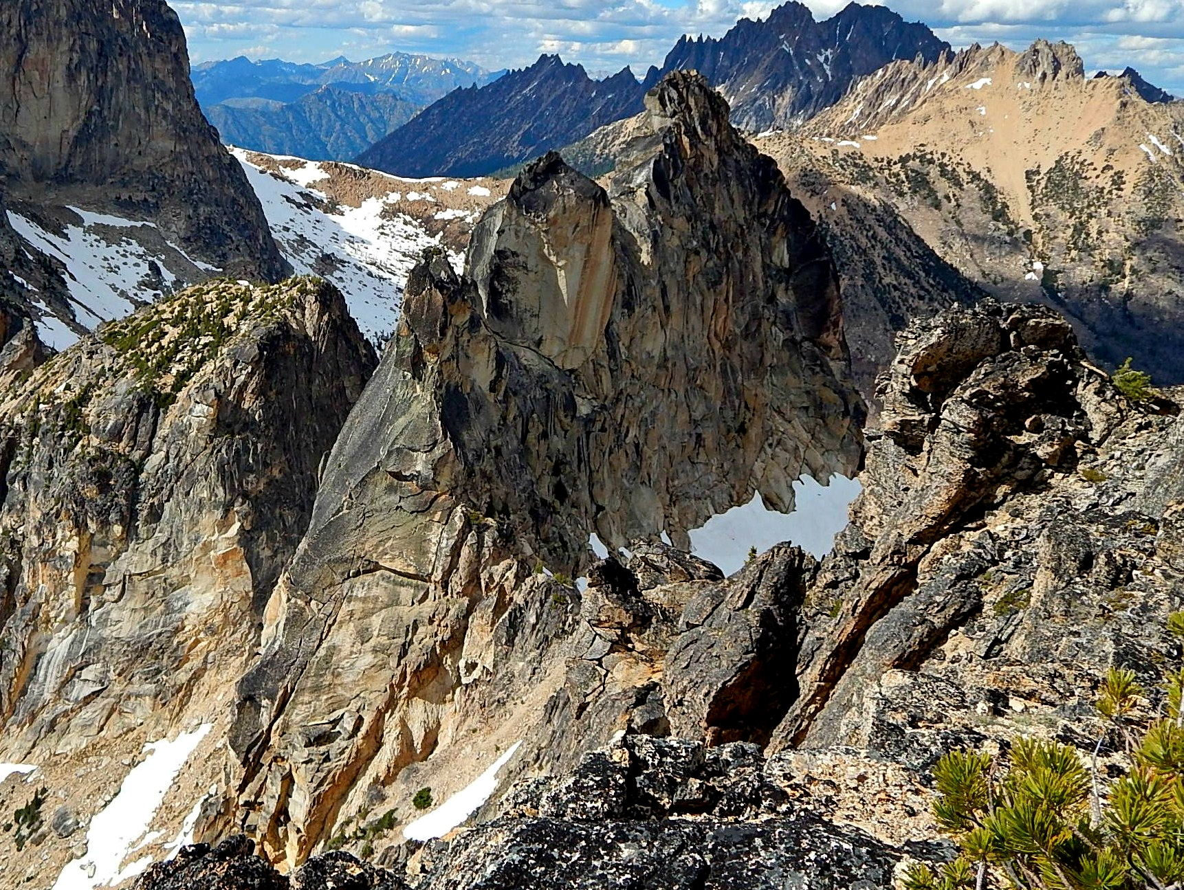 Half Moon and Choi Oi Tower seen from Wallaby Peak on Kangaroo Ridge. North Cascades